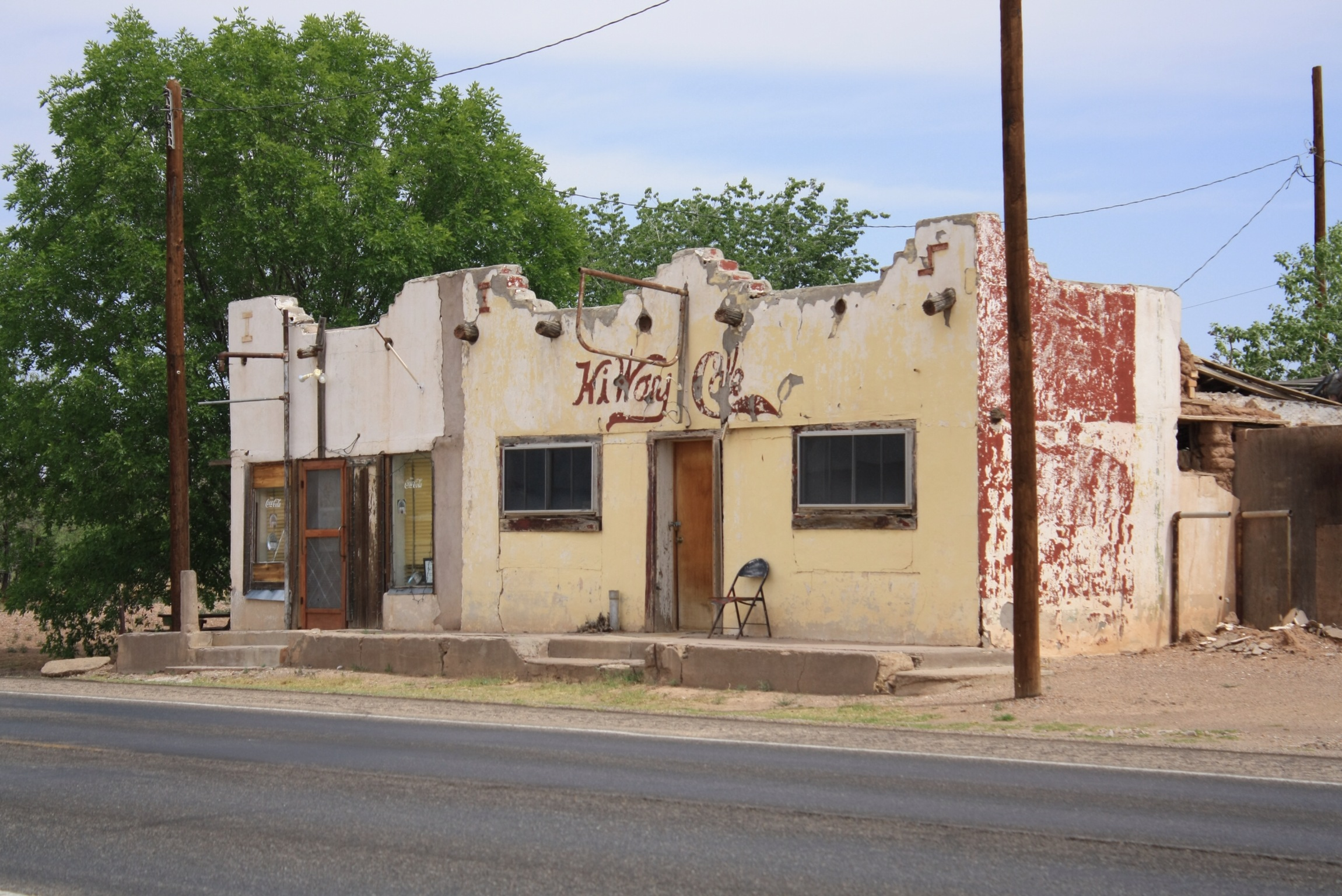 everywhere is a ghosttown here (Hi Way Cafe, Valentine TX)